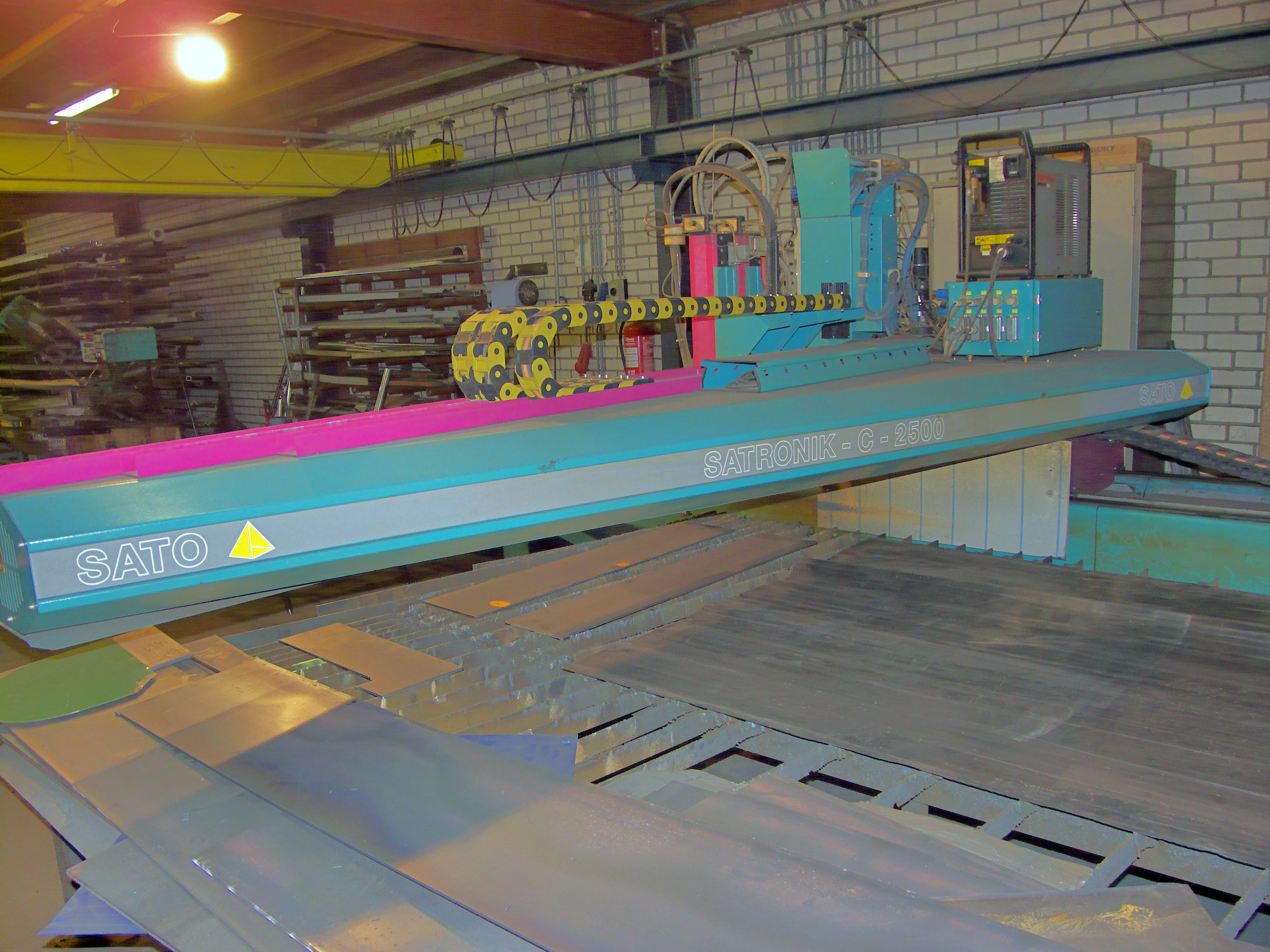 Plasma cutter Satronik C 2500